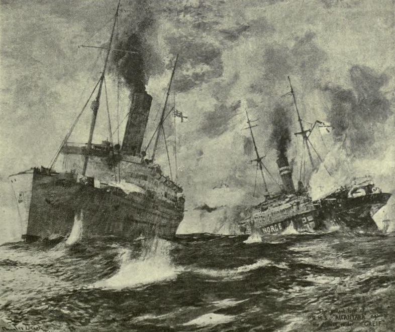 HMS Alcantara engages the German raider Grief on 29 February 1916, in the North Sea. Both ships sank.